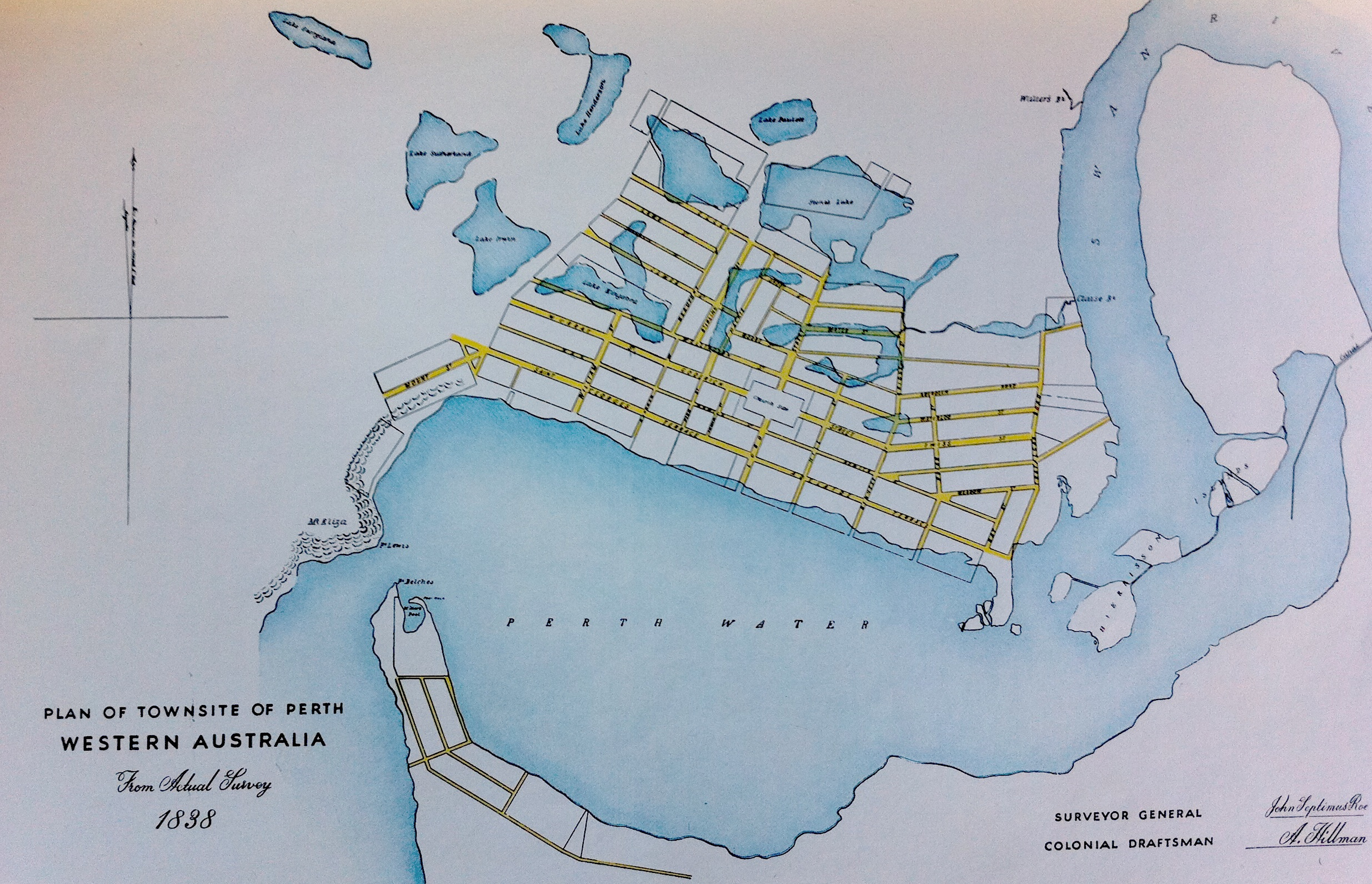 A reproduction of a map created in 1838, and printed in the 1950-1951 City of Perth Lord Mayor's report - of Perth water and the planned format of Perth roads, as well as identifications of the lakes found in the Perth area before they were filled in at later dates...